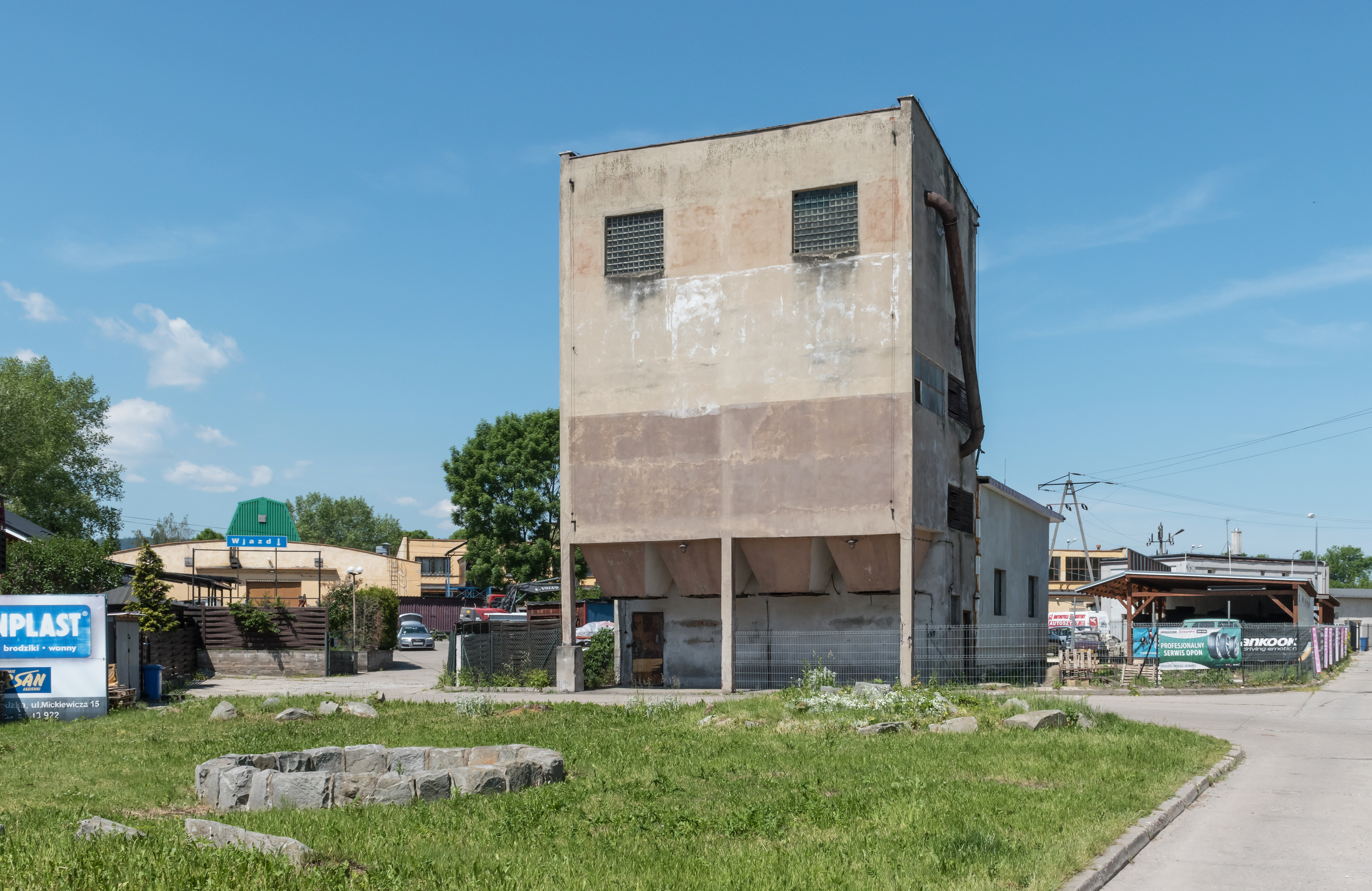 Former Bystrzyckie Plants of the Match Industry